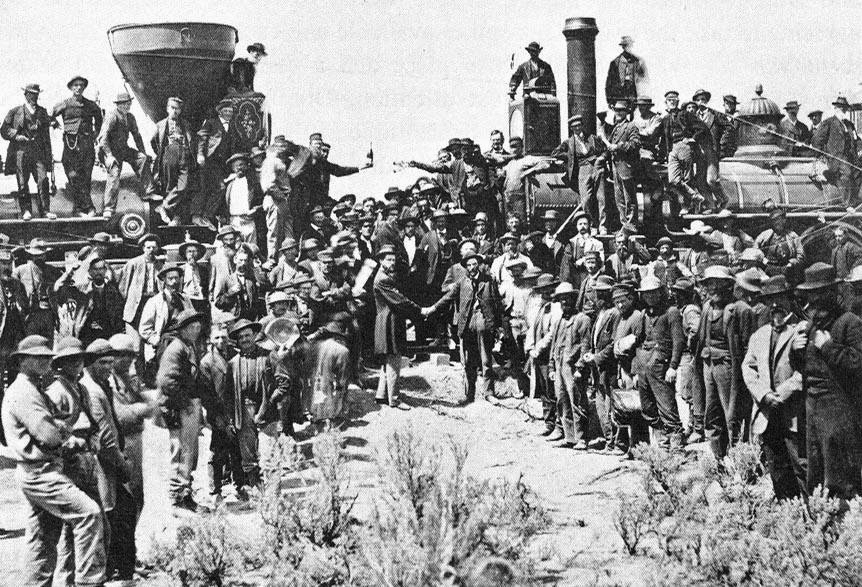 The ceremony for the driving of the golden spike at Promontory Summit, Utah on May 10, 1869; completion of the First Transcontinental Railroad. At center left, Samuel S. Montague, Central Pacific Railroad, shakes hands with Grenville M. Dodge, Union Pacific Railroad (center right). The original glass negative is in the archives of the American Geographical Society of New York (the white streaks radiating from the extreme right of the photograph represent pressure cracks in the wet plate itself).